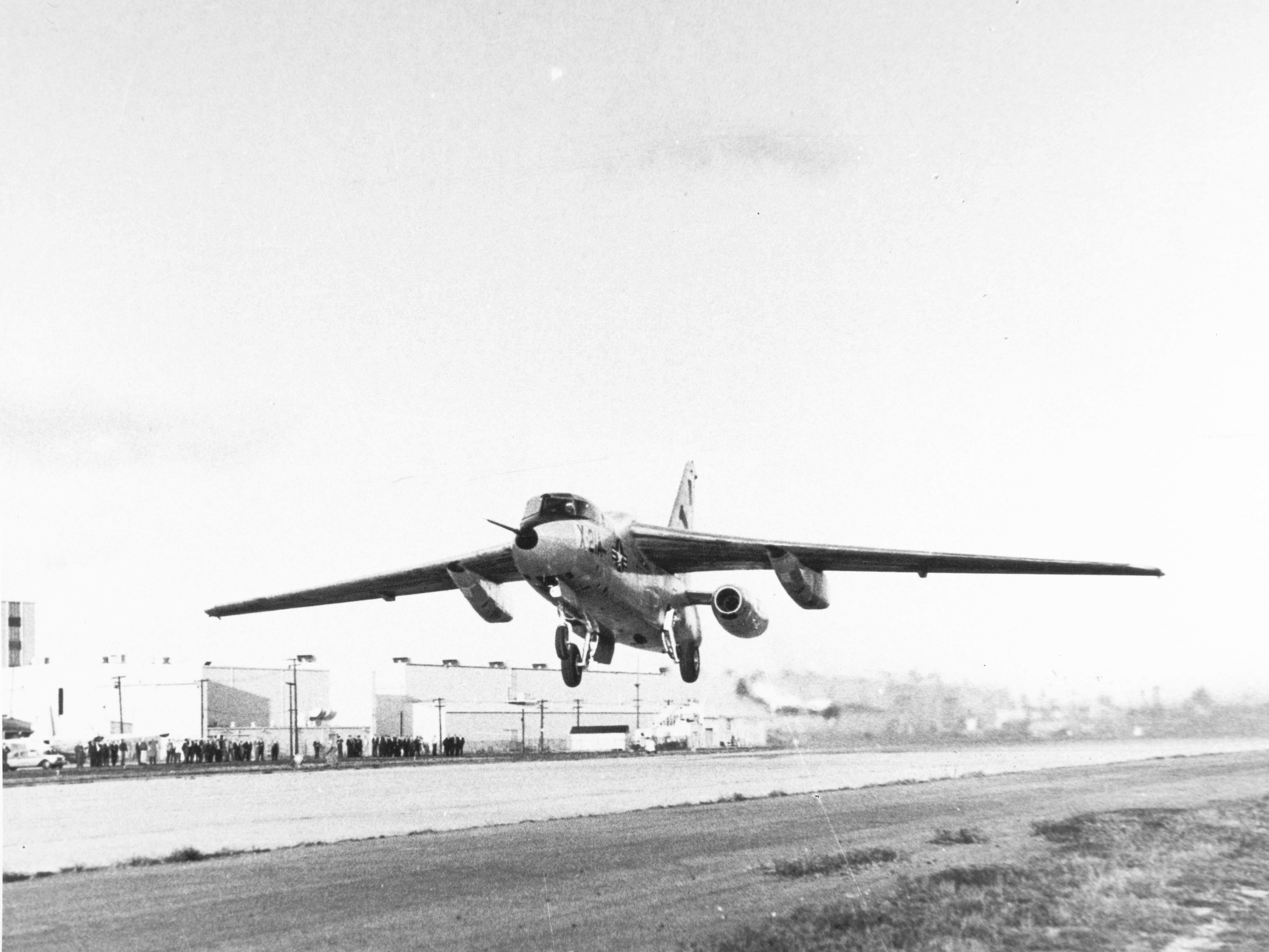 First flight of the Northrop X-21A, Apri 18, 1963